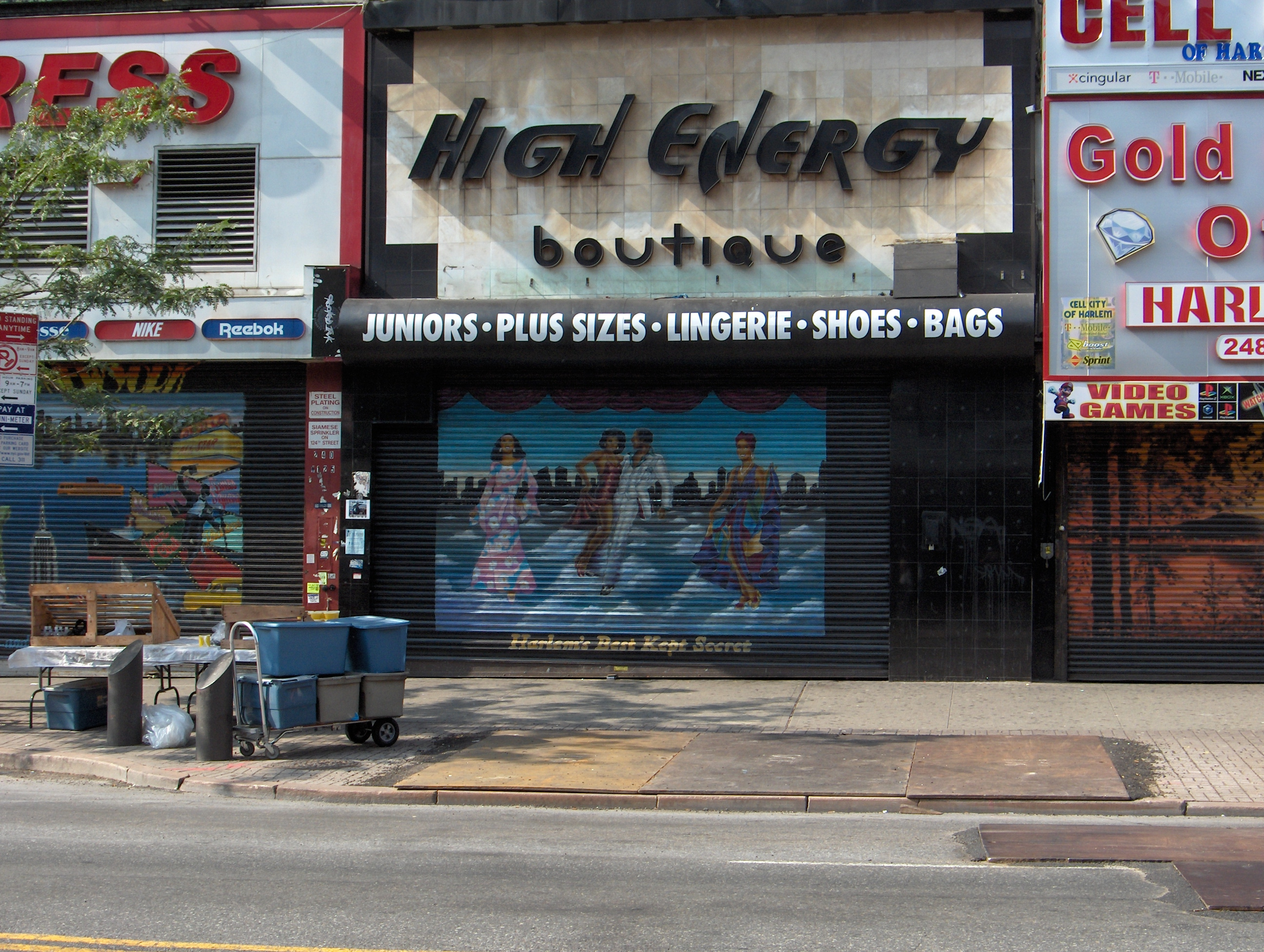 Paintings on a wall in Harlem